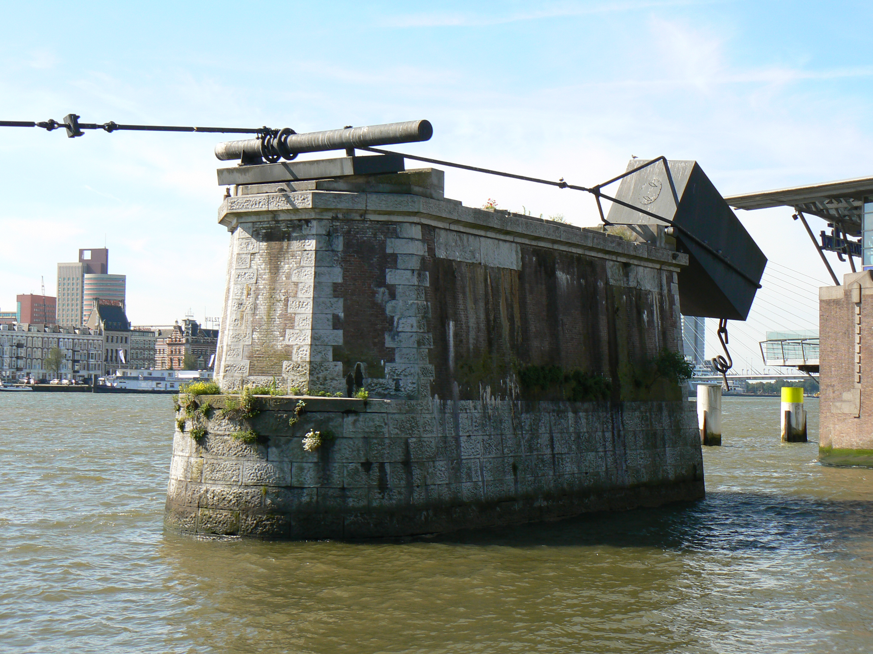 sculpture by Auke de Vries in Rotterdam/The Netherlands